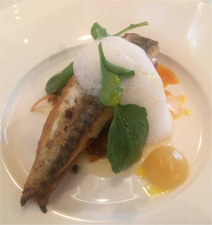 Mackerel Fish Modern Irish Food Ireland at The Lemontree Restaurant, Letterkenny, County Donegal